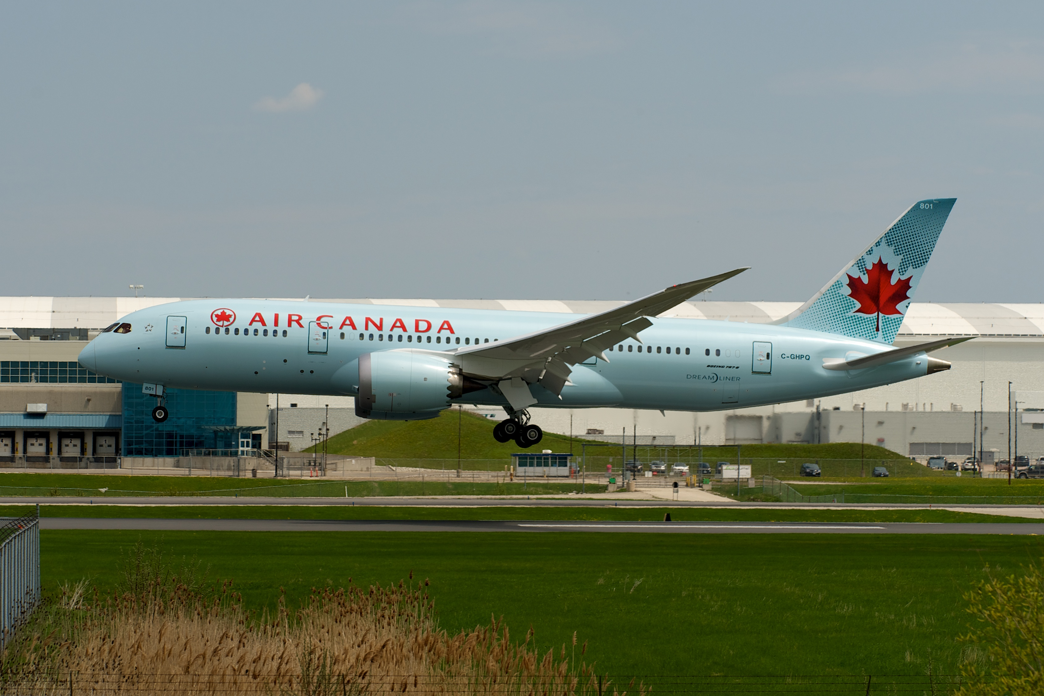 Returning from a test flight, day after delivery.